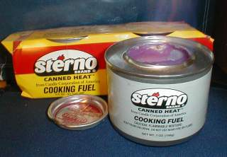 Sterno